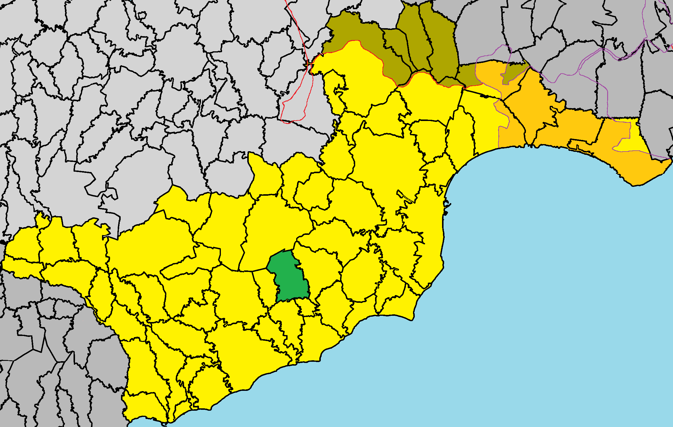 Anglisides in Larnaca District.